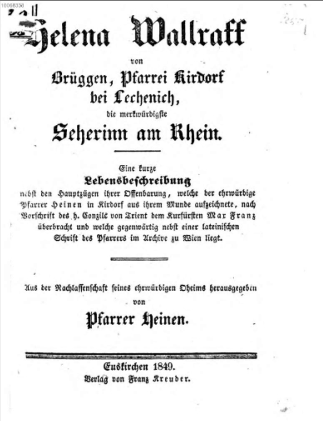 Helena Wallraff (1755-1801) left so-called "prophecies" concerning the political and religious futures, first published as a book in this 1849 printing. This image is part of a gallery of four, in which the original text of the predictions is shown.